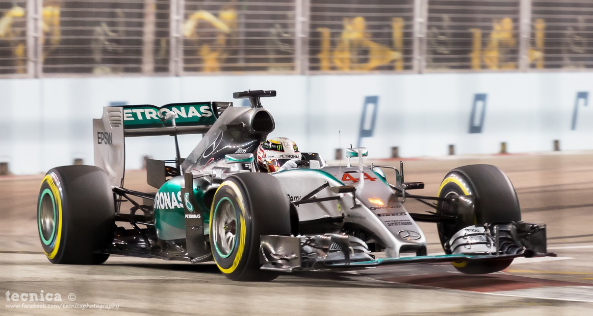 Lewis Hamilton at the 2015 Singapore Grand Prix